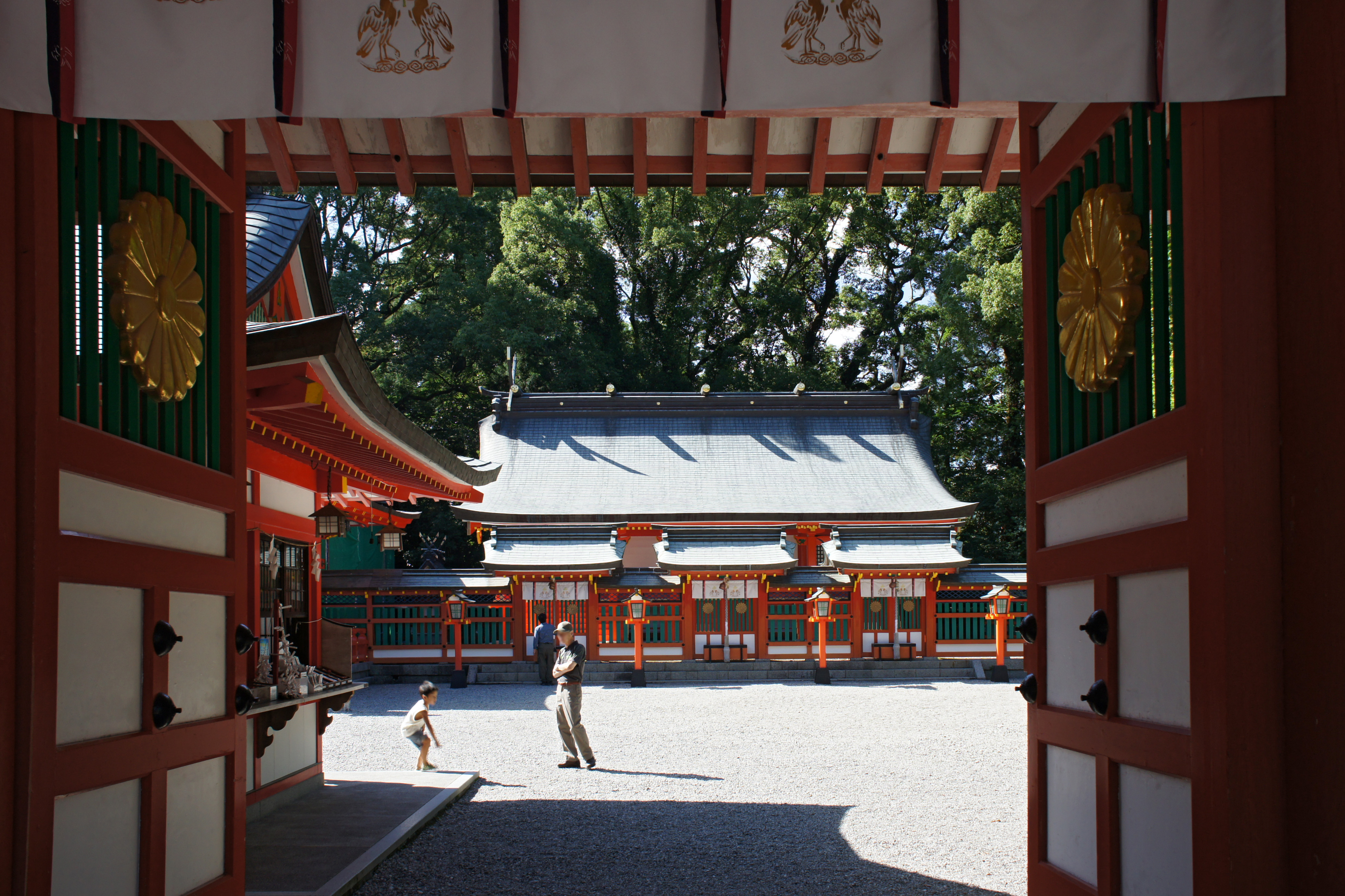 Kumano-Hayatama-shrine in Shingu, Wakayama Prefecture, Japan.